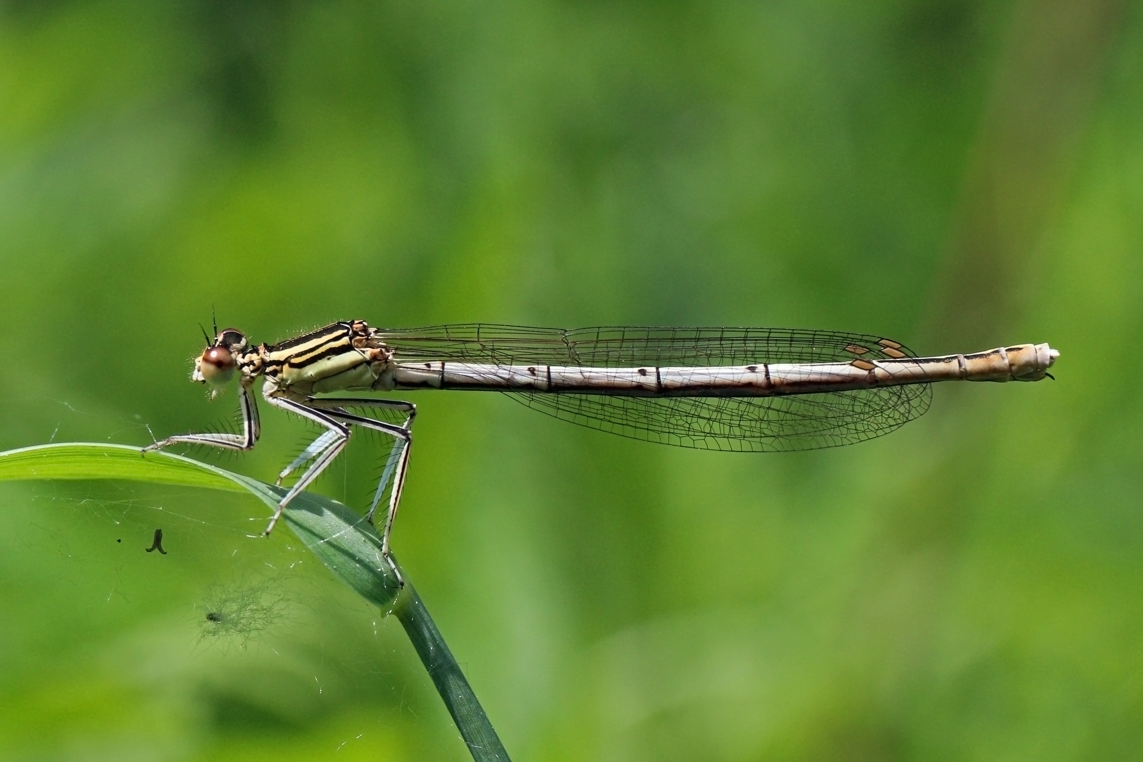 White-legged damselfly (Platycnemis pennipes) female, Warsaw, Poland